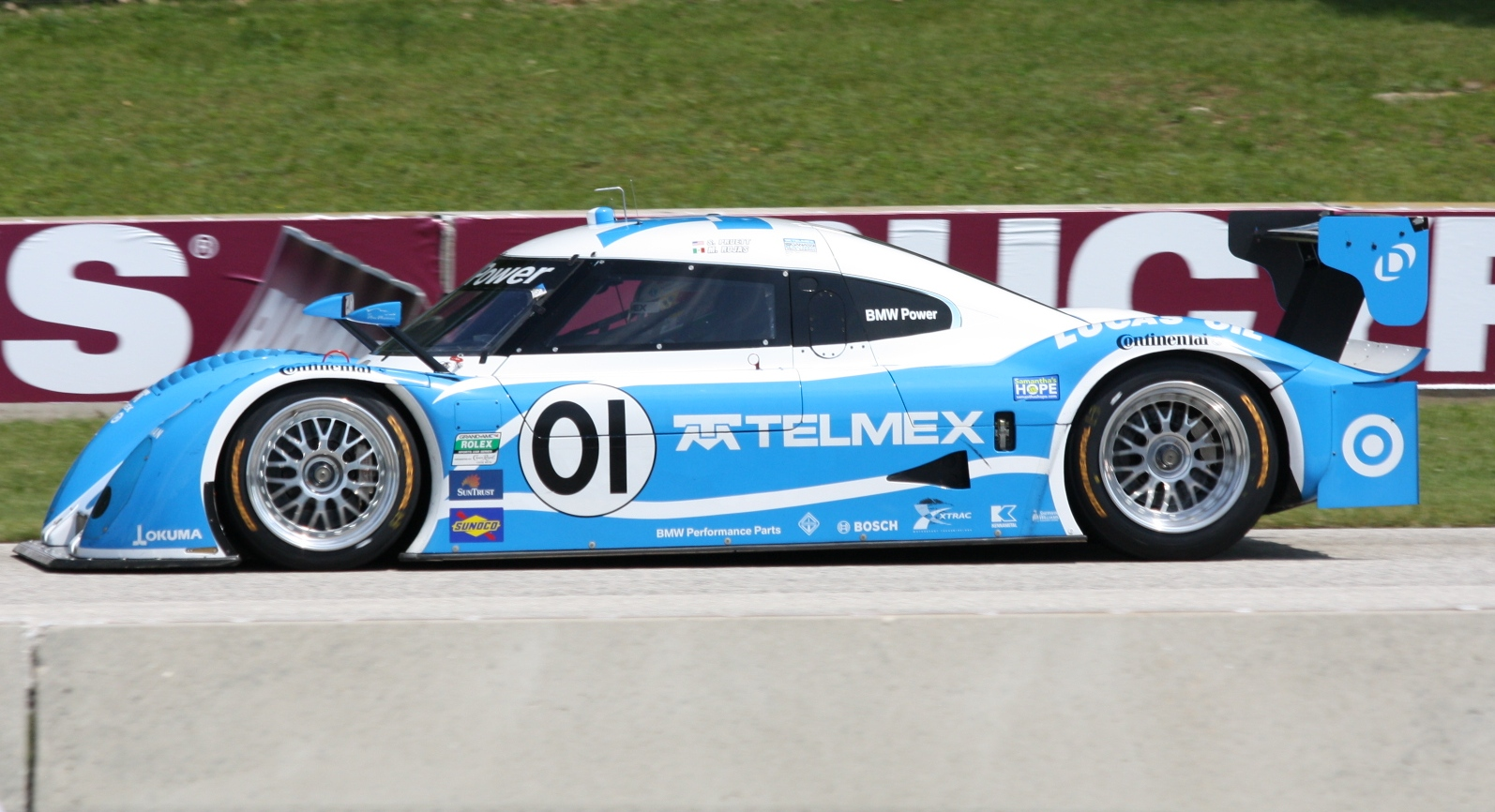 The Daytona Prototype of Scott Pruett and Memo Rojas racing in Grand-Am sports car at Road America.